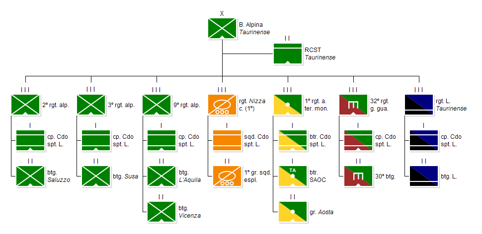 Current structure of the alpine brigade "Taurinense".